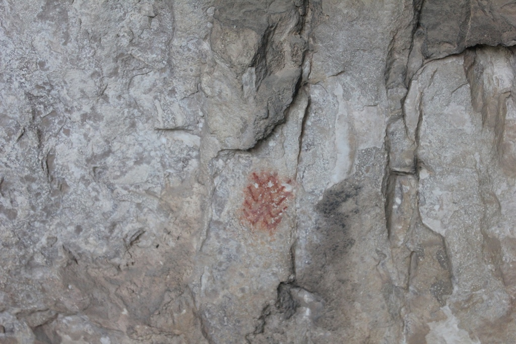 Abrigos de Barfaluy, Barfaluy I